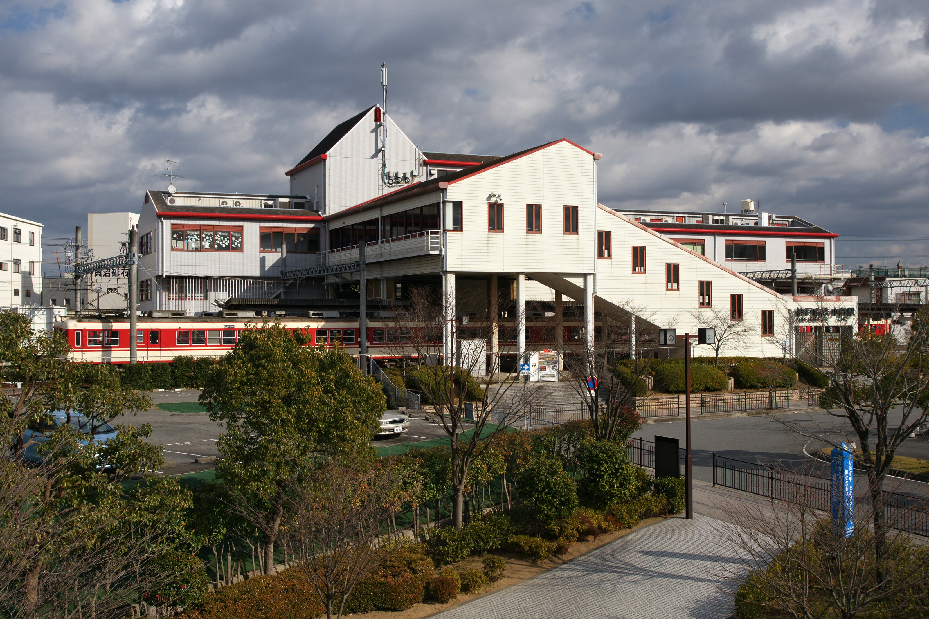 Ono Station in Ono, Hyogo prefecture, Japan.